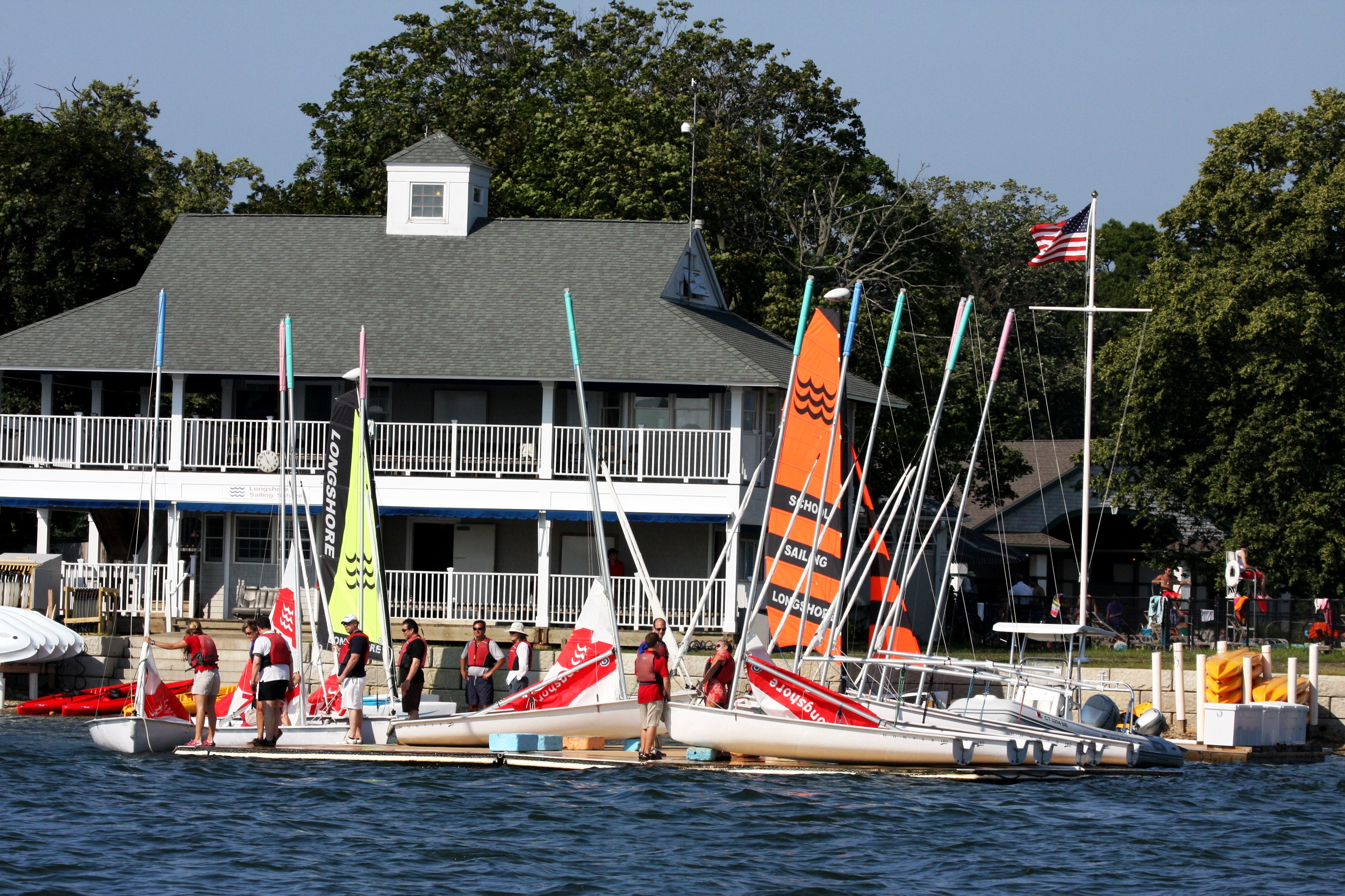 Longshore Sailing School in Westport Connecticut